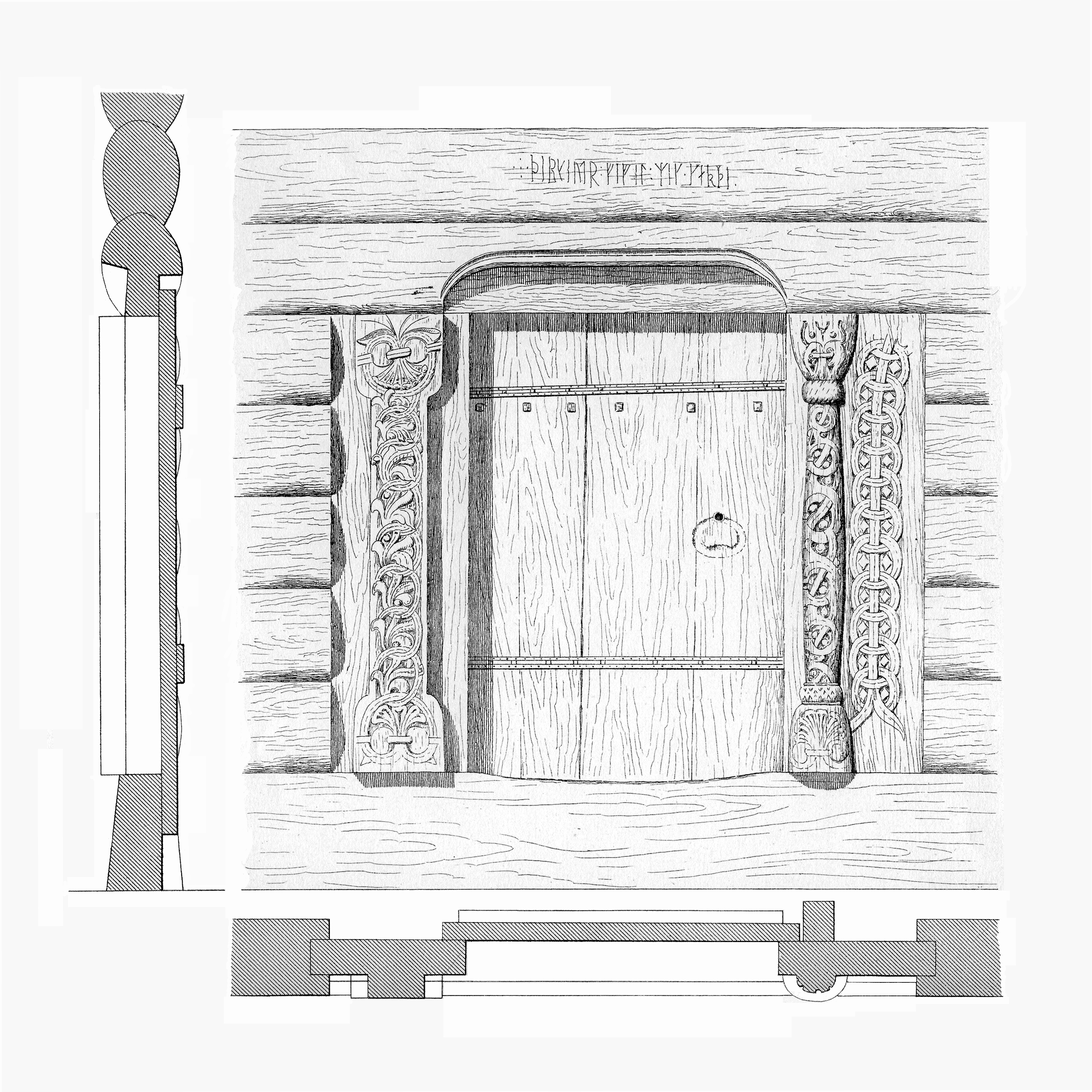 Door of the Rauland farmhouse from Uvdal, Numedal, Norway, built 1238. Now at the Norsk Folkemuseum in Oslo.